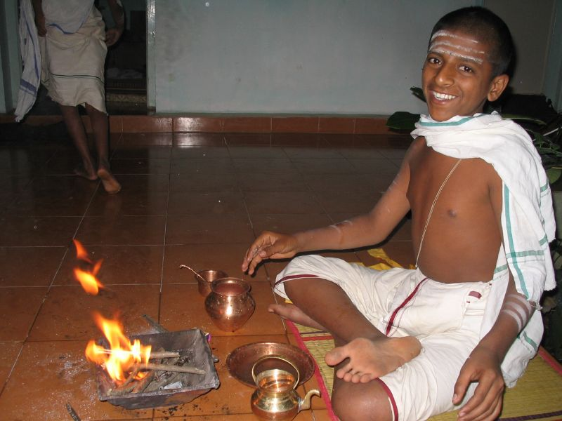 A Brahmin in Tamil Nadu performing a ritual (homam).